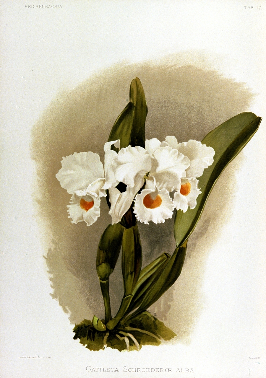 Cattleya schroederae Rchb.f. (1887)